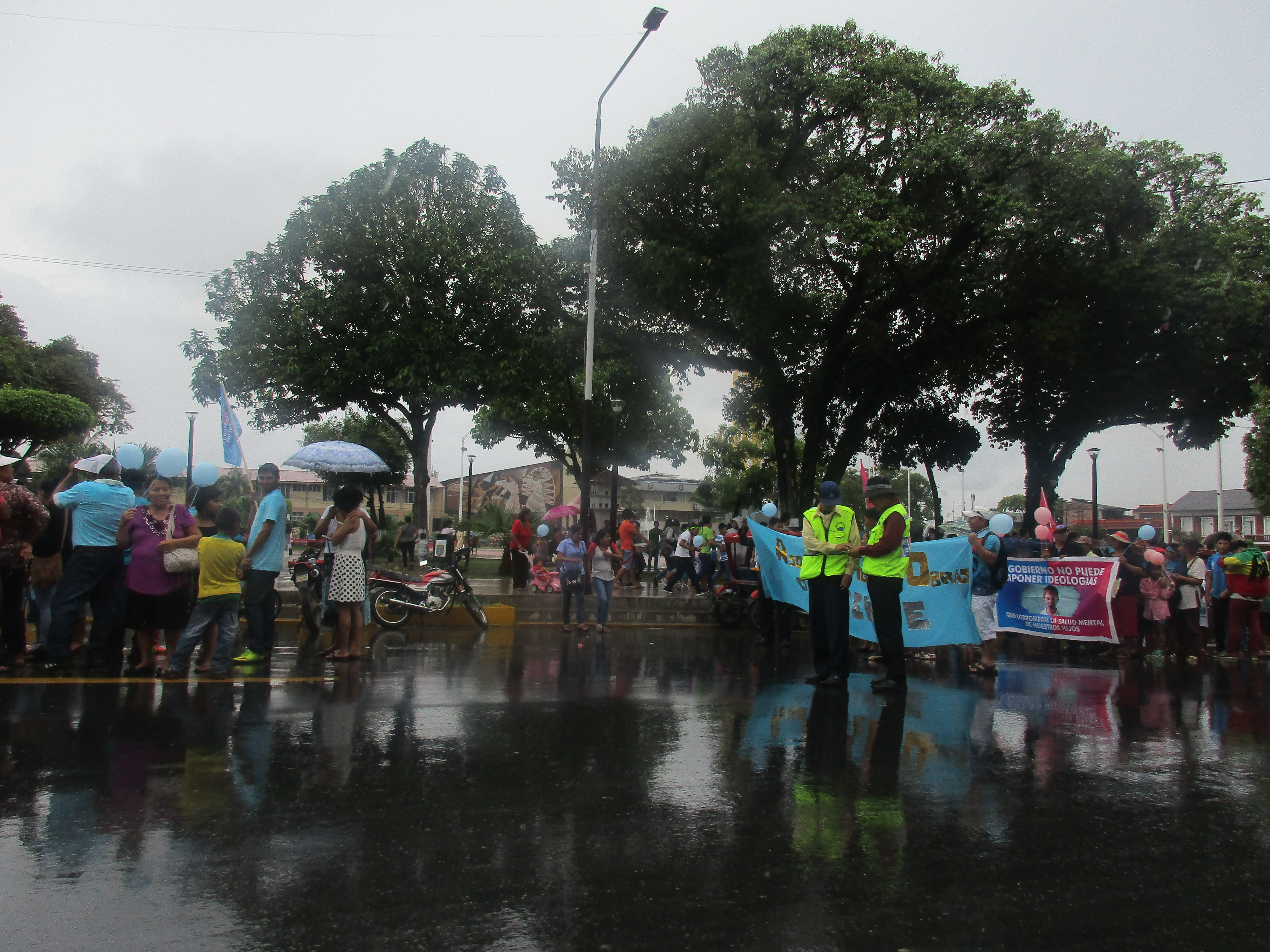 Protests in Iquitos against the ideology of gender 1